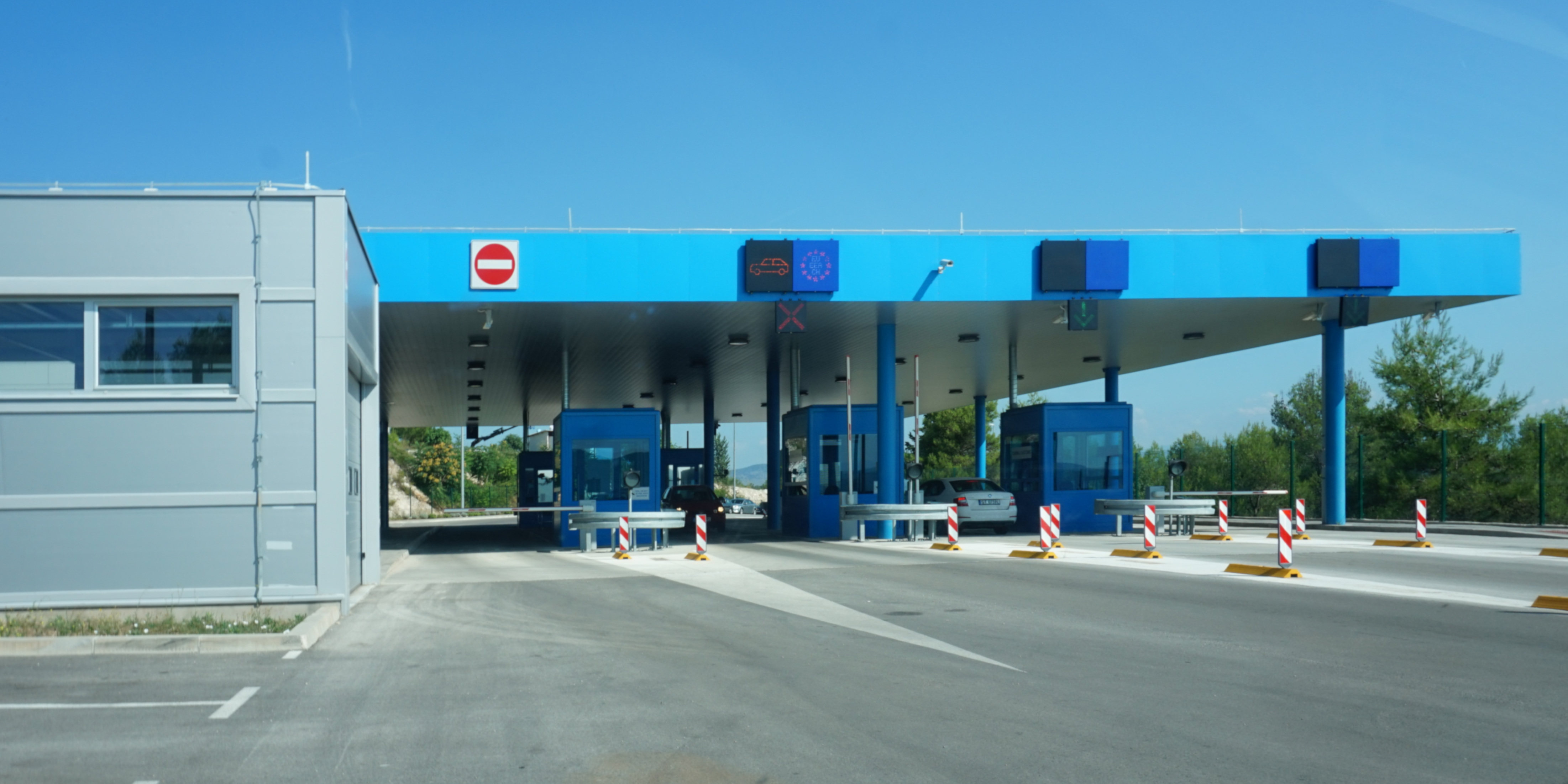 Border crossing Crveni Grm / Mali Prolog between Bosnia & Herzegovina and Croatia. Srpskohrvatski / српскохрватски: Granični prelaz Crveni Grm / Mali Prolog između Bosne i Hercegovine te Hrvatske.